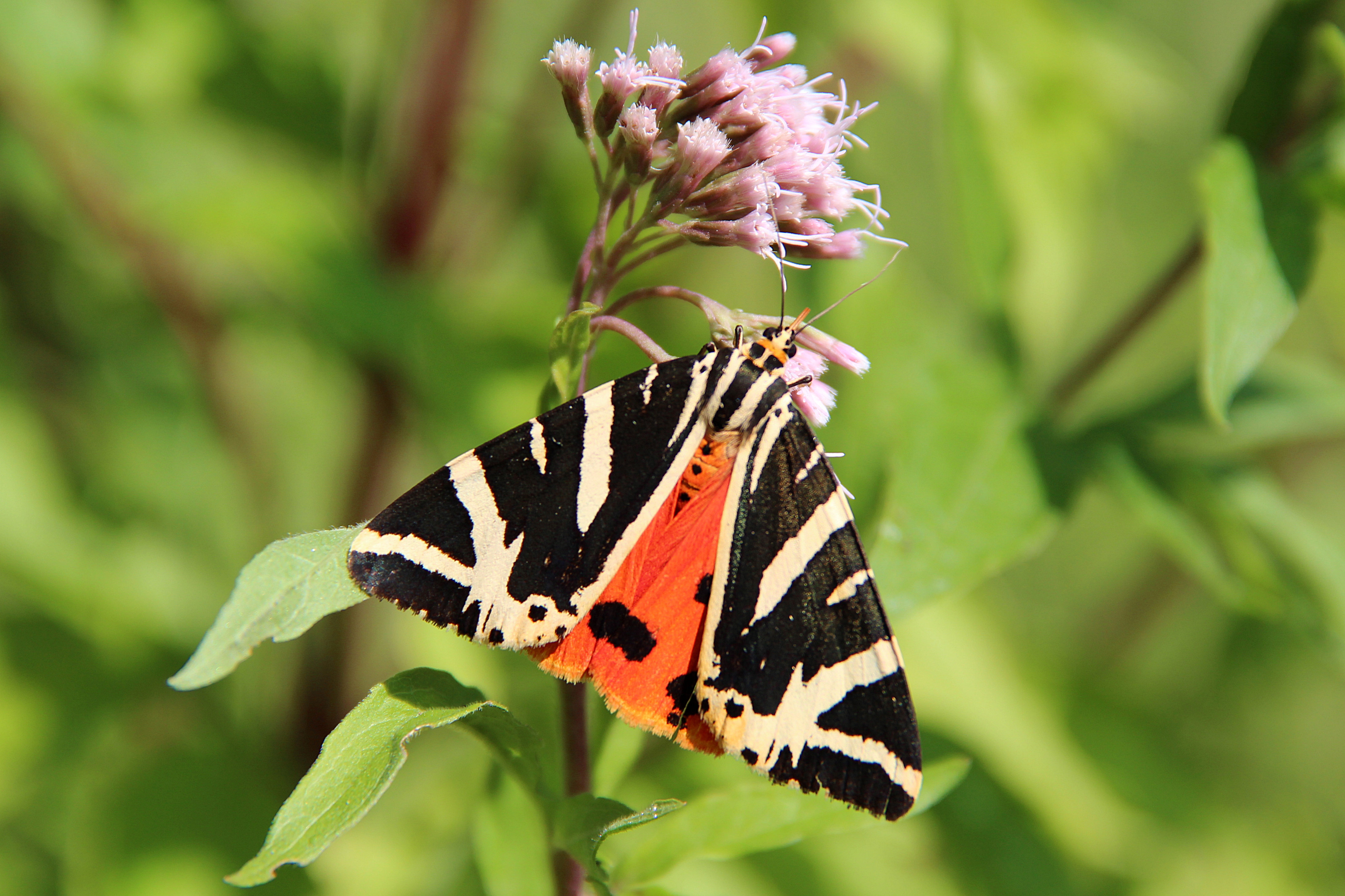 Écaille chinée ou Callimorphe, Euplagia quadripunctaria - Havré (Belgique).